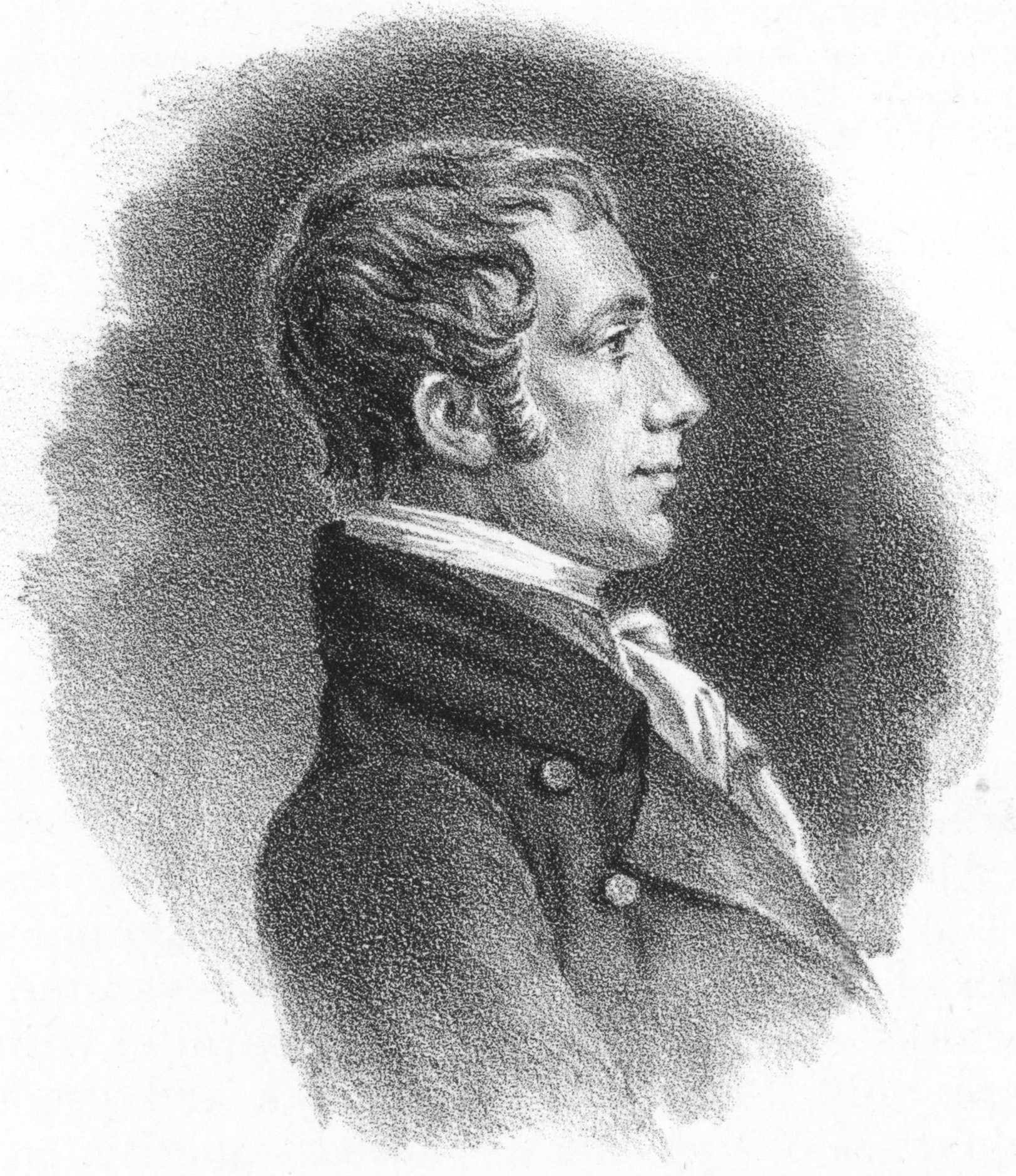 Brigadier General, lawyer, and politician Alexander Smyth